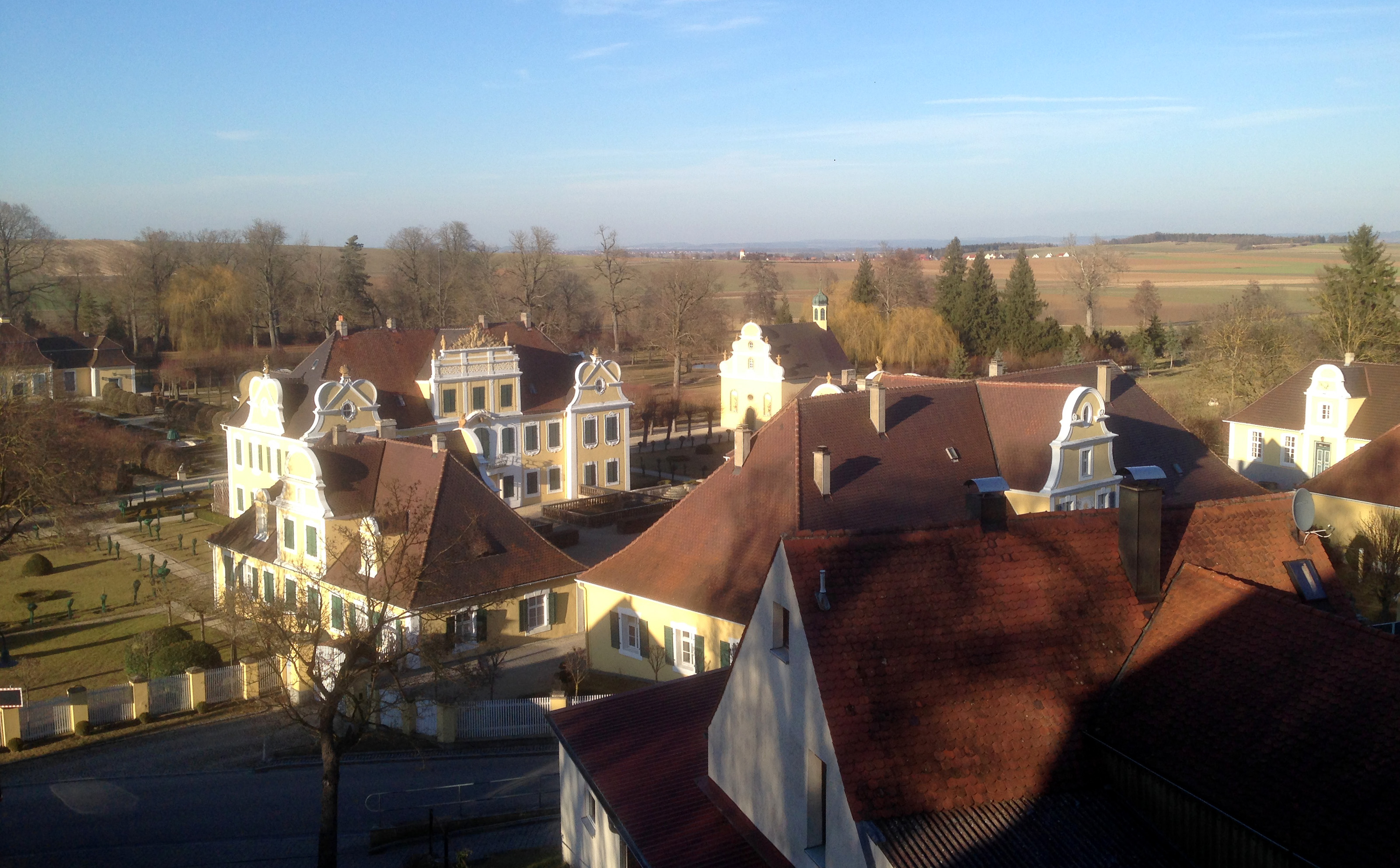 Schloss Hohenaltheim from south